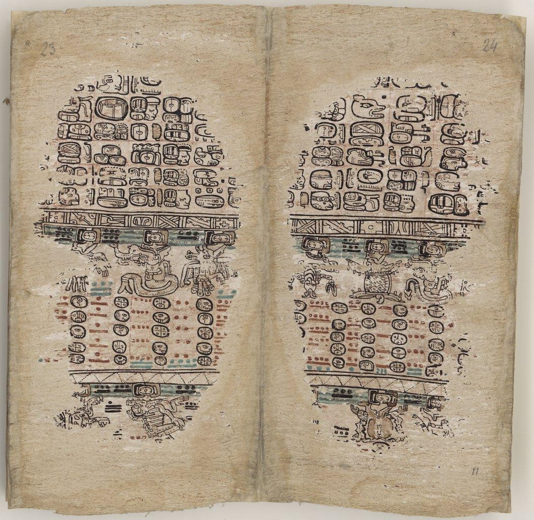 Pages 21-22 of the Paris Codex, a Postclassic Maya book.